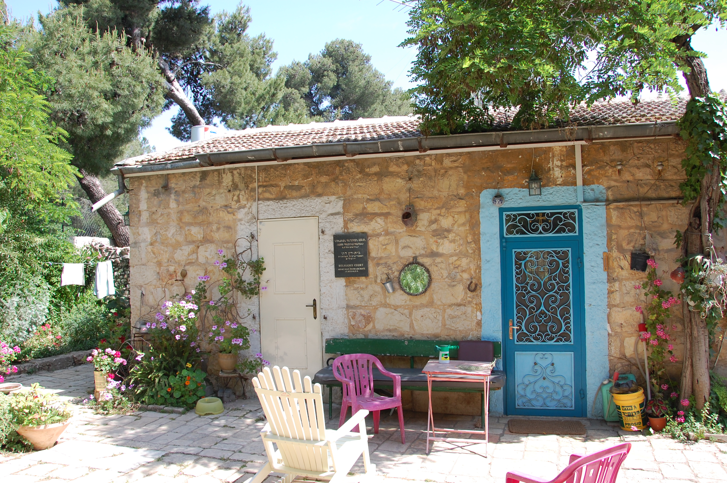 small house in emek refaim